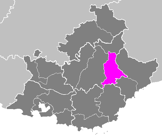 Maps of arrondissements and cantons of France: Arrondissement de Castellane.PNG